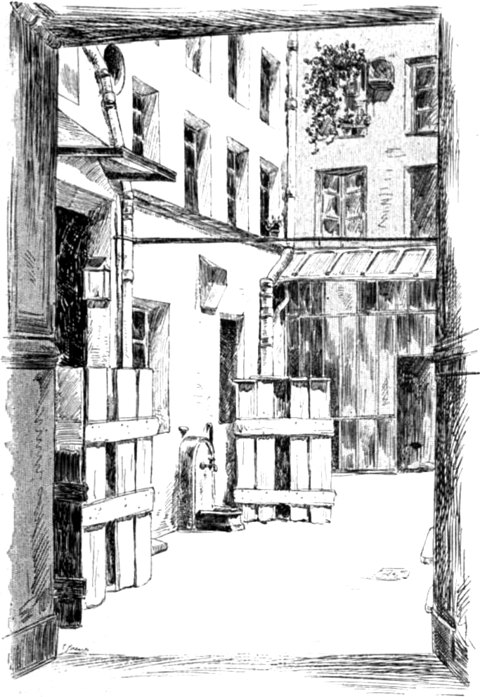 Courtyard of the house of Maurice Duplay (1736-1820), Robespierre's landlord, at No. 366 rue Saint-Honoré in Paris. Robespierre's room was on the second floor, above the fountain.